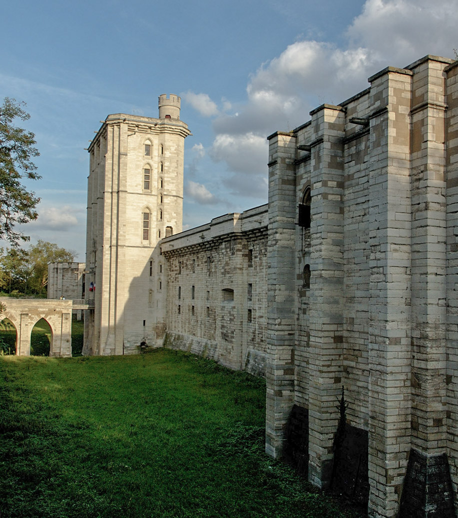 The northern wall and the "Village Gate" of the medievial castle at Vincennes, France.